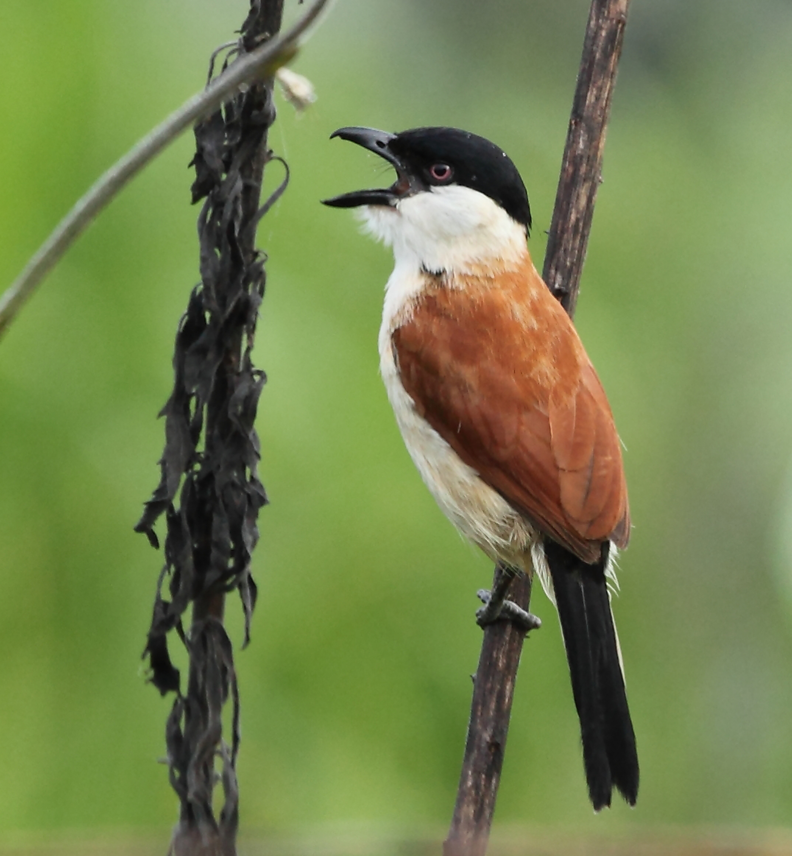 Marsh Tchagra, Luita, DRC